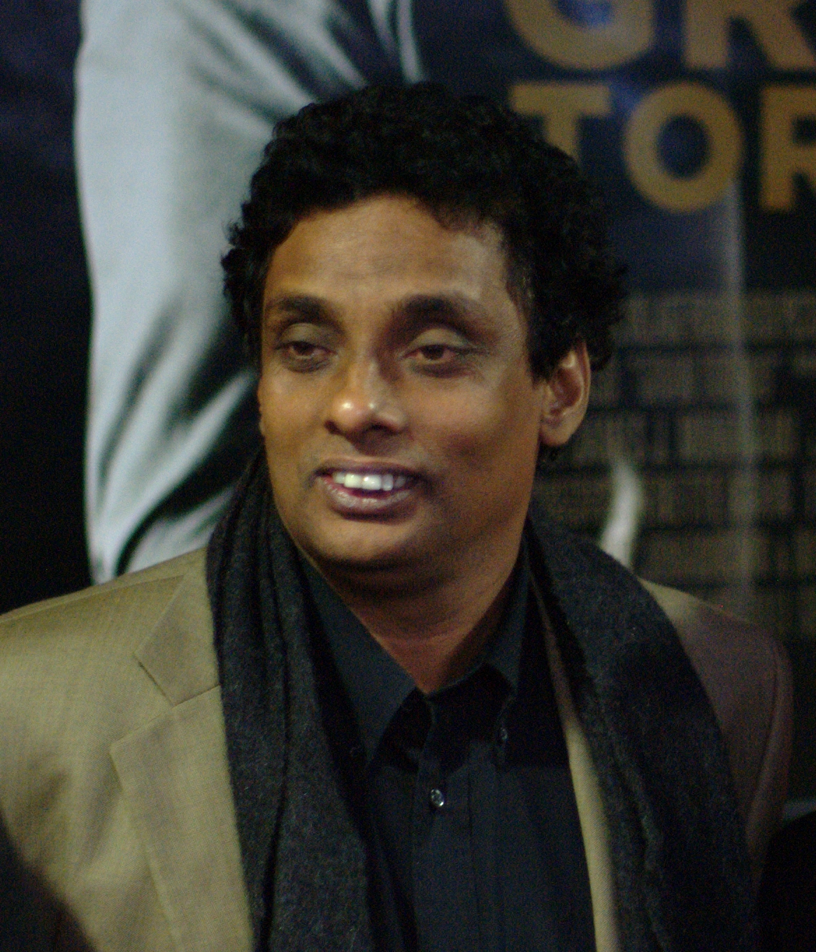 Prasanna Vithanage, film director from Sri Lanka. Picture taken during Vesoul international Asian film festival, 2009.